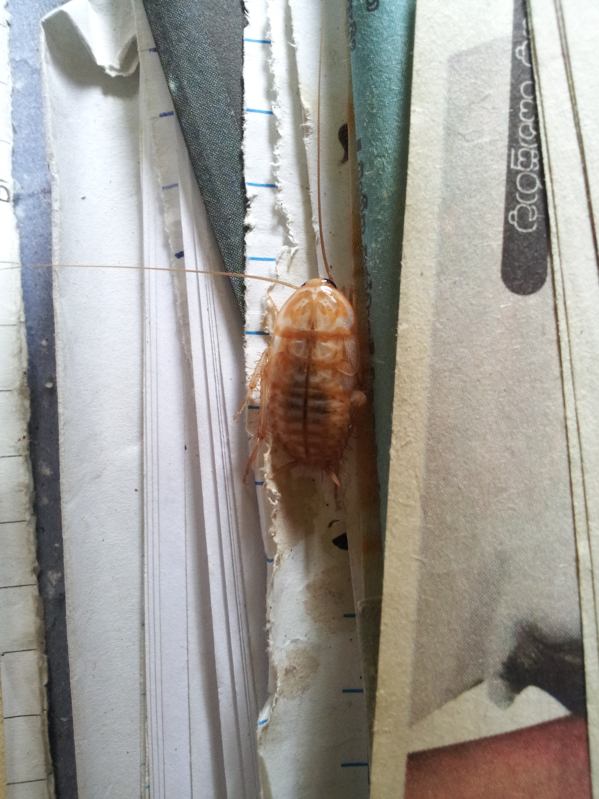 Albino cockroach from bakamuna, Sri Lanka